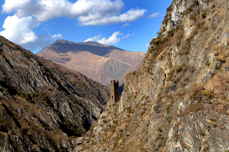 Mutso, Khevsureti Georgia.